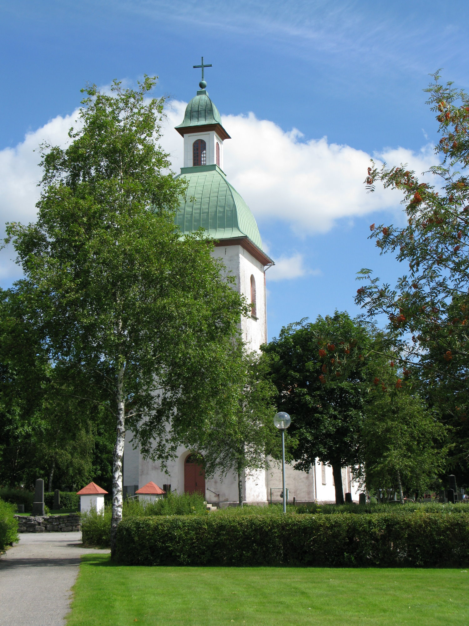 Church of Töllsjö, Diocese of Göteborg, Church of Sweden